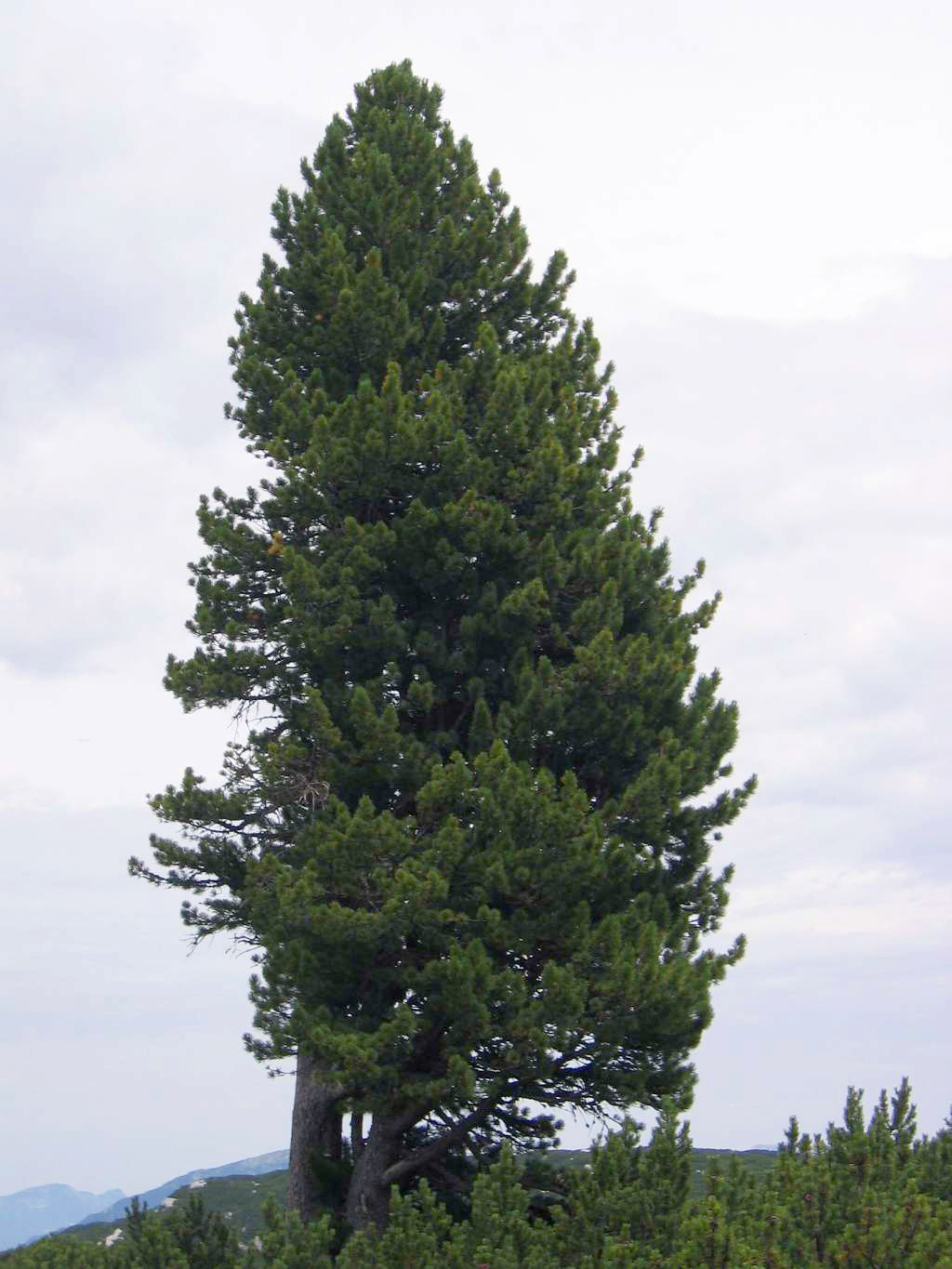 Swiss Pine on Dachstein, Austria